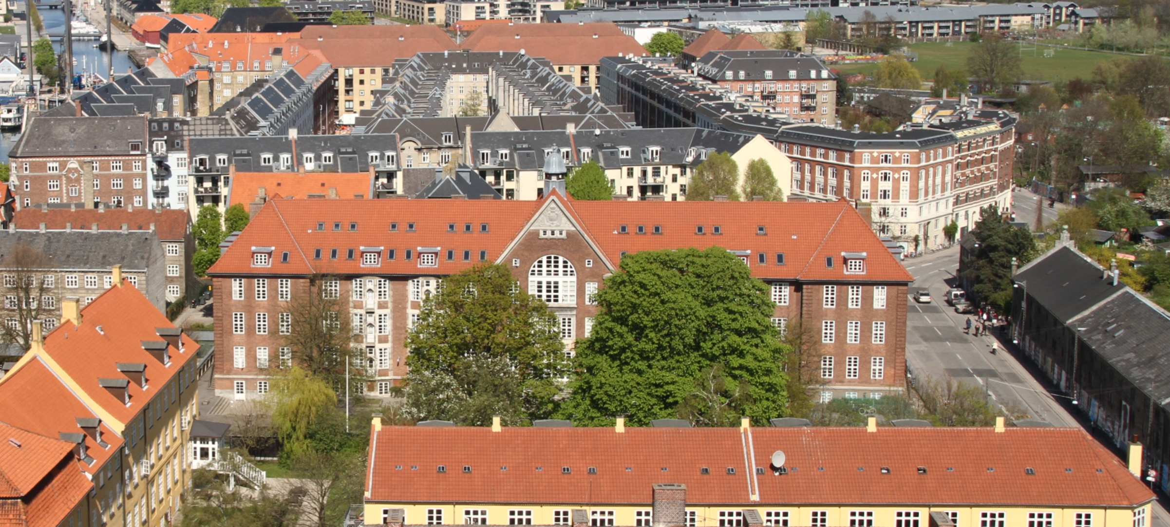 Image from Christianshavn, the eastern, naval quarters of old Copenhagen - on the northwestern part of the island Amager.